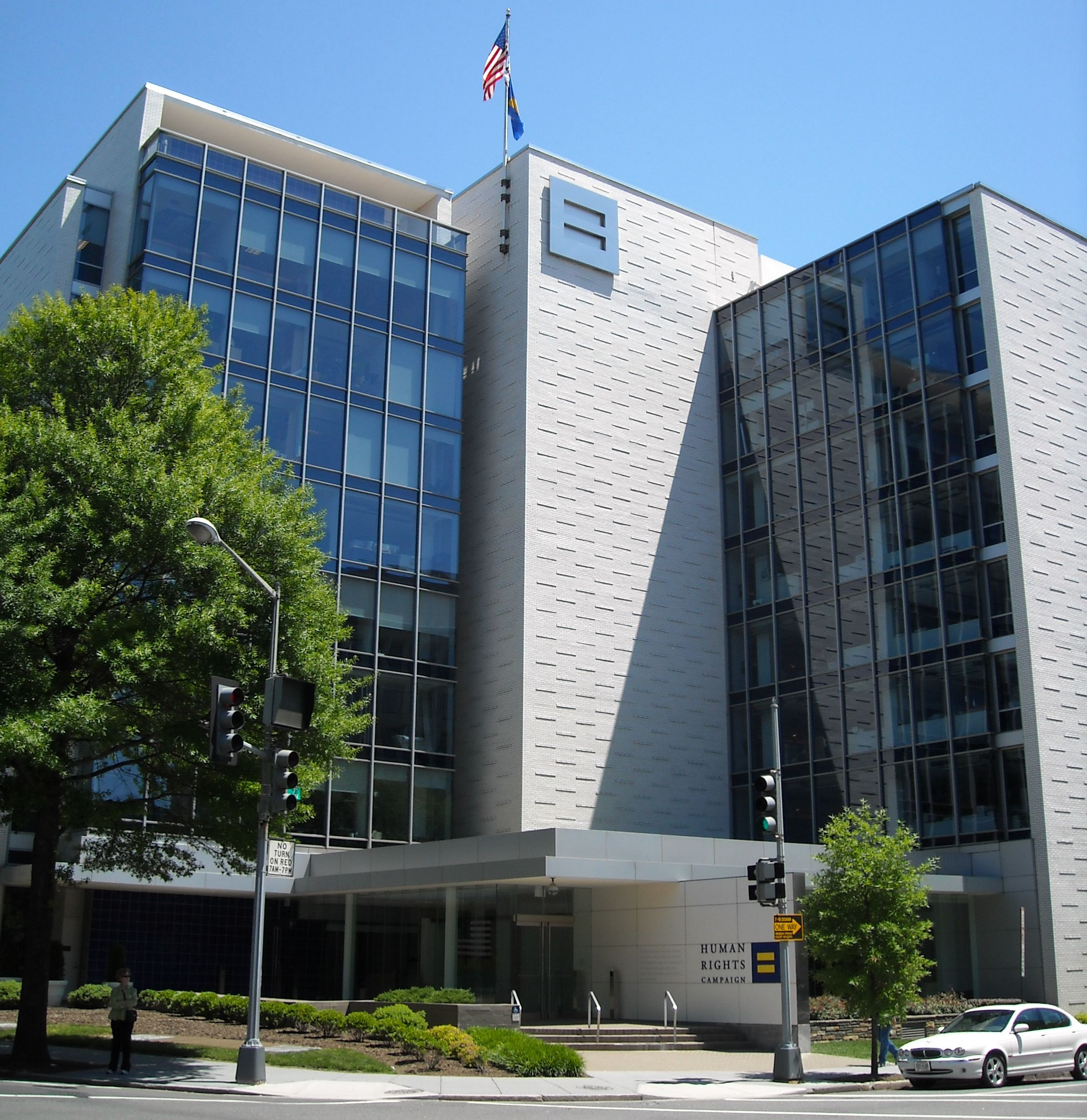 The Human Rights Campaign headquarters located at 1640 Rhode Island Avenue, NW in the Dupont Circle neighborhood of Washington, D.C.